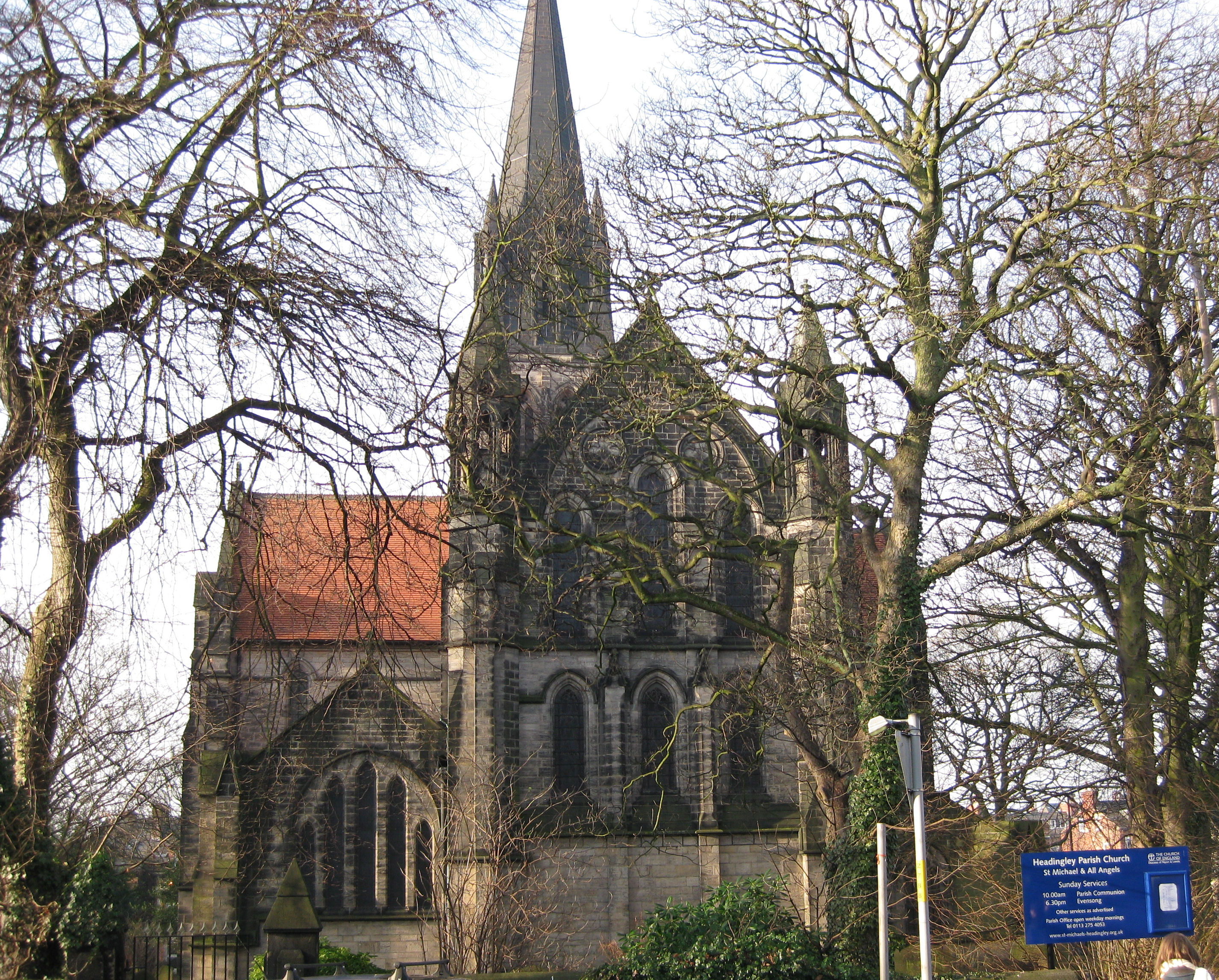 The parish church of Headingley, Leeds. St Michael and All Angels. Church of England 1886